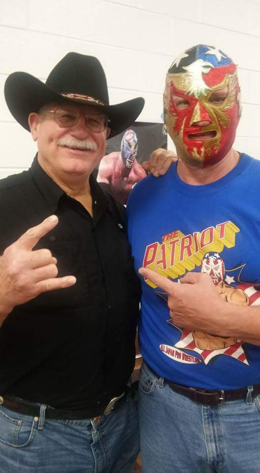 Picture of Del "The Patriot" Wilkes with Stan Hansen in 2015.